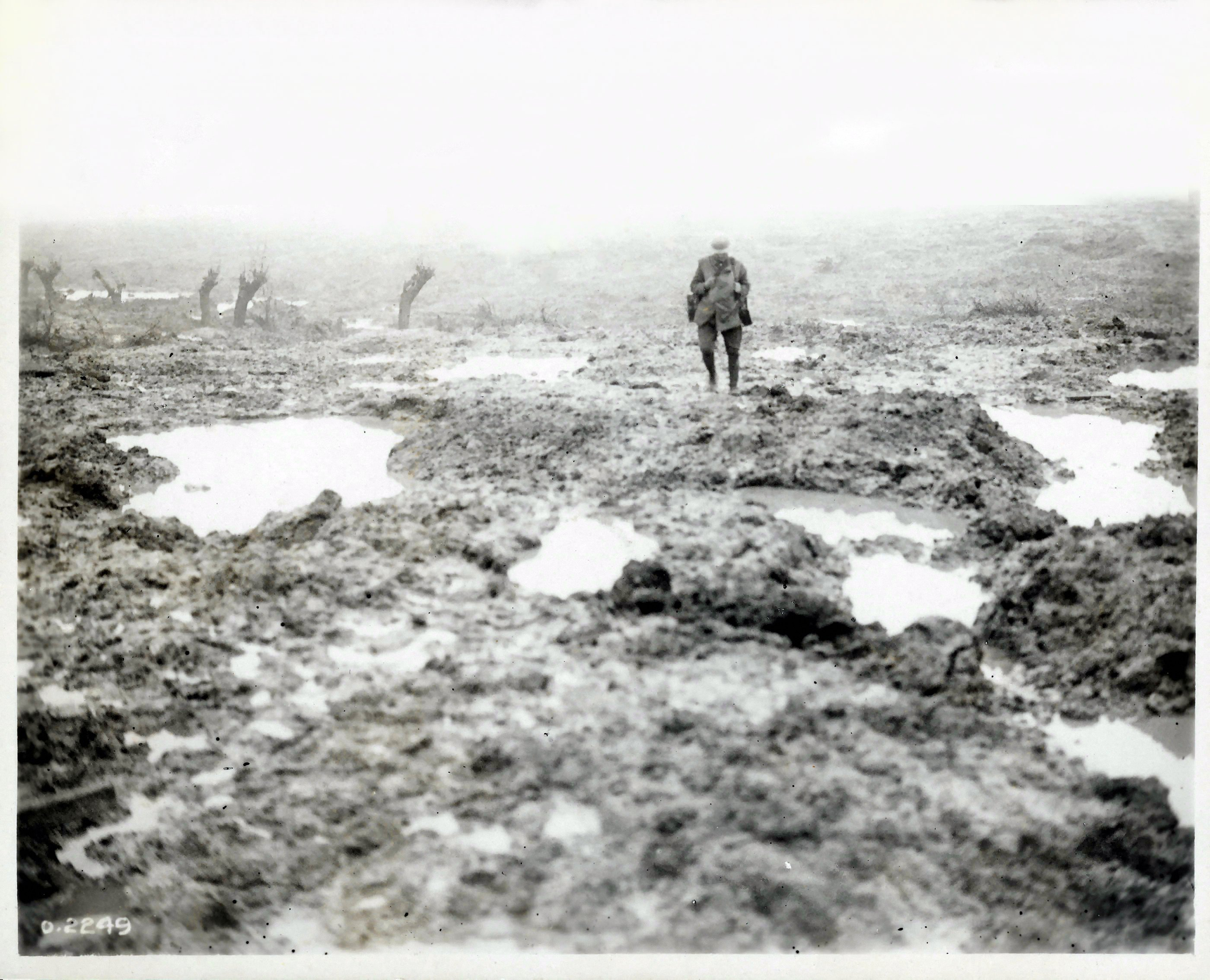 The mud at Passchendaele slowed all movement to a crawl, and left advancing troops exposed to enemy fire for longer periods of time during attacks.